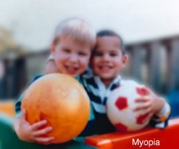 human eyesight two children and ball with myopia short-sightedness Copyright: public domain, US gov. Source: [1] Credit of NIH National Eye Institute requested. Part of a set of eye pictures: Image:Human eyesight two children and ball normal vision.jpg Image:Human eyesight two children and ball with age-related macular degeneration.jpg Image:Human eyesight two children and ball with cataract.jpg Image:Human eyesight two children and ball with diabetic retinopathy.jpg Image:Human eyesight two children and ball with glaucoma.jpg Image:Human_eyesight two_children and ball with retinitis pigmentosa or tunnel vision.png Image:Human eyesight two children and ball with myopia short-sightedness.png Other NEI NIH images (color image of Image:Human eyesight two children and ball with myopia short-sightedness.png but upload was broken and it could not upload a new version)